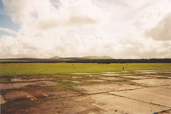 Davidstow airfield, Bodmin Moor. Built during World War II by the Americans, who had not appreciated what an inhospitable place the moor can be and how quickly the weather can change!